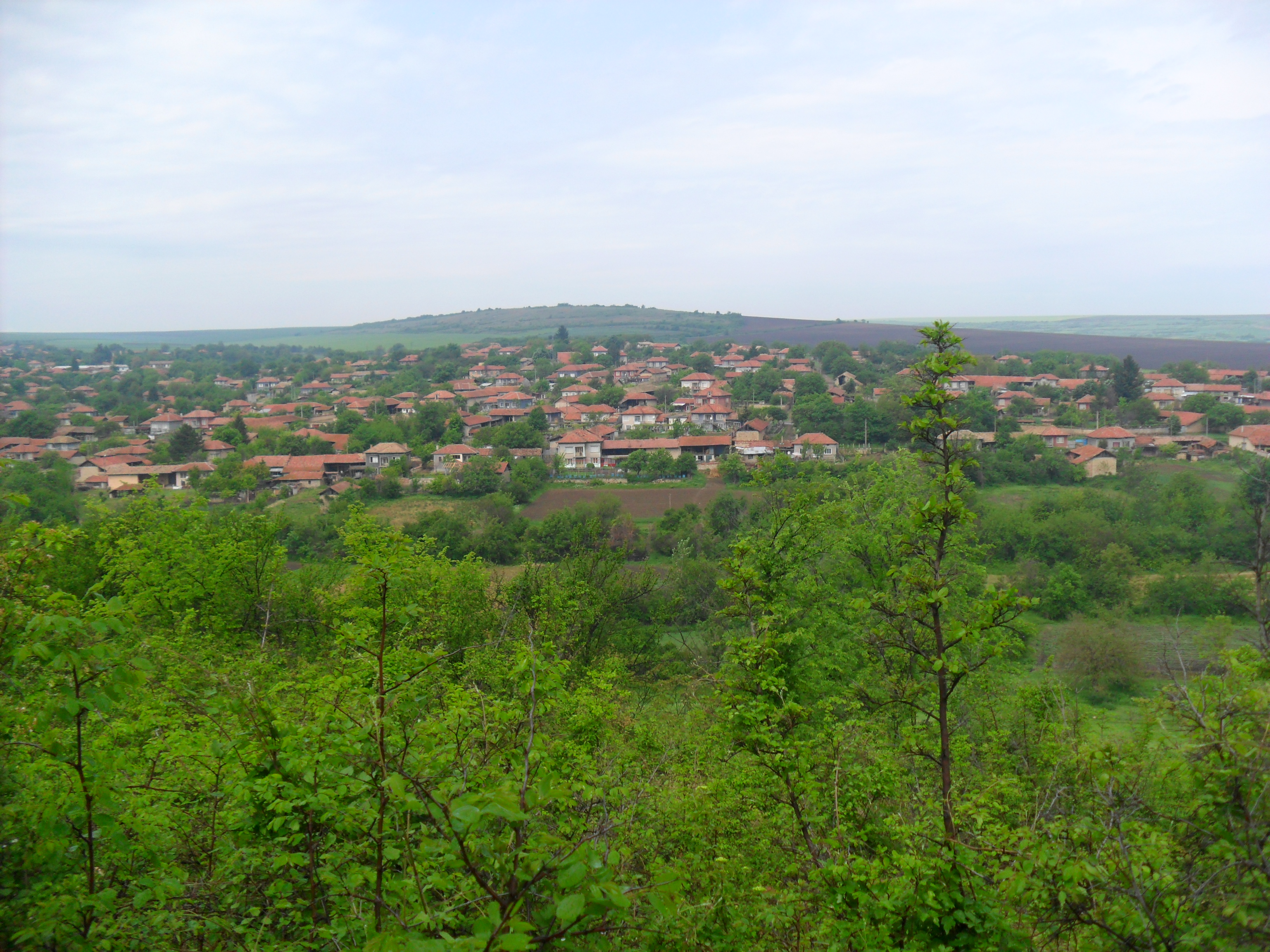 Donla mahala panorama